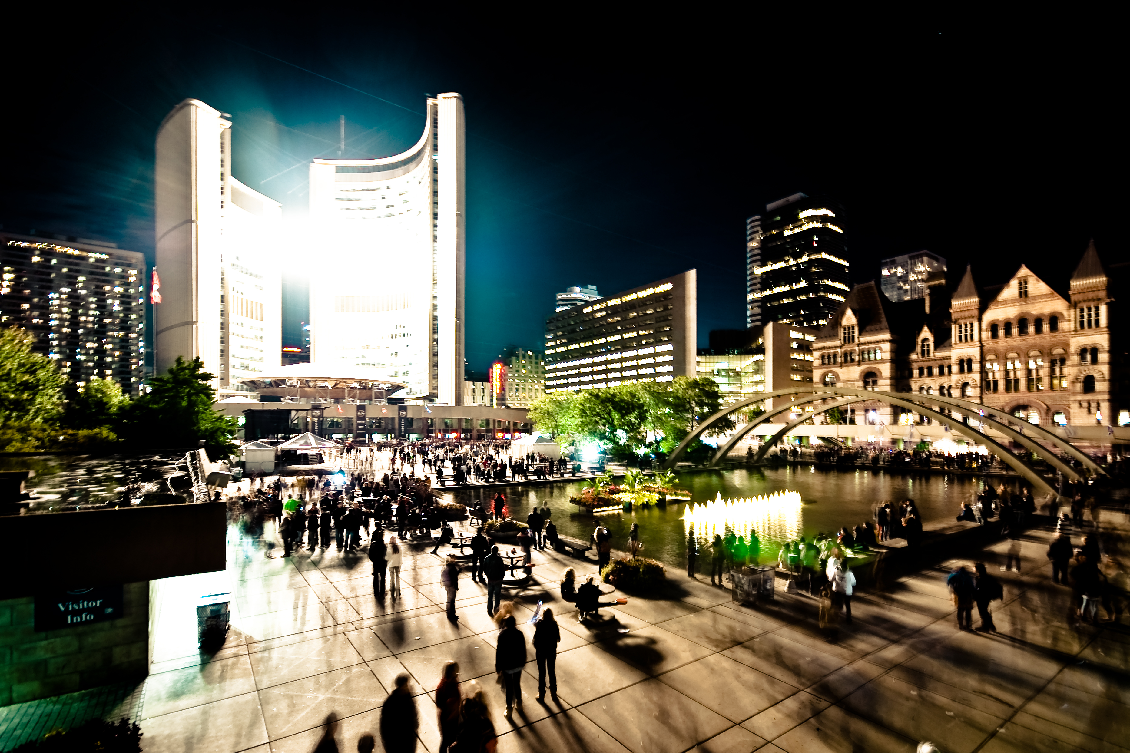 Another amazing setup using Toronto's City Hall. An impressing amount of light coming from the 4 digit display lit up the entire area.